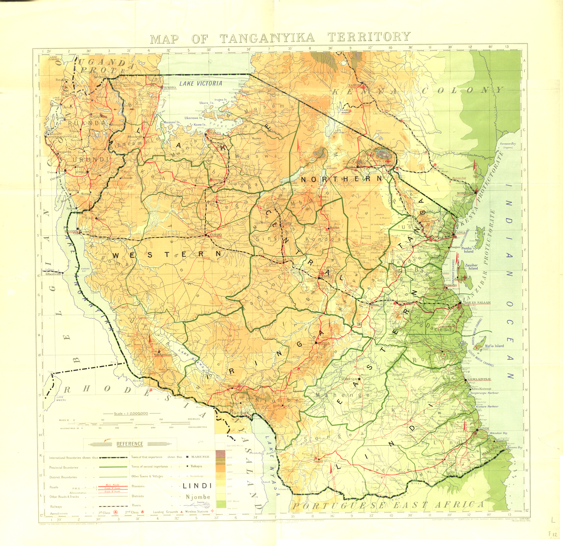 Map of Tanganyika Territory from 1934 by Survey department Tanganyika